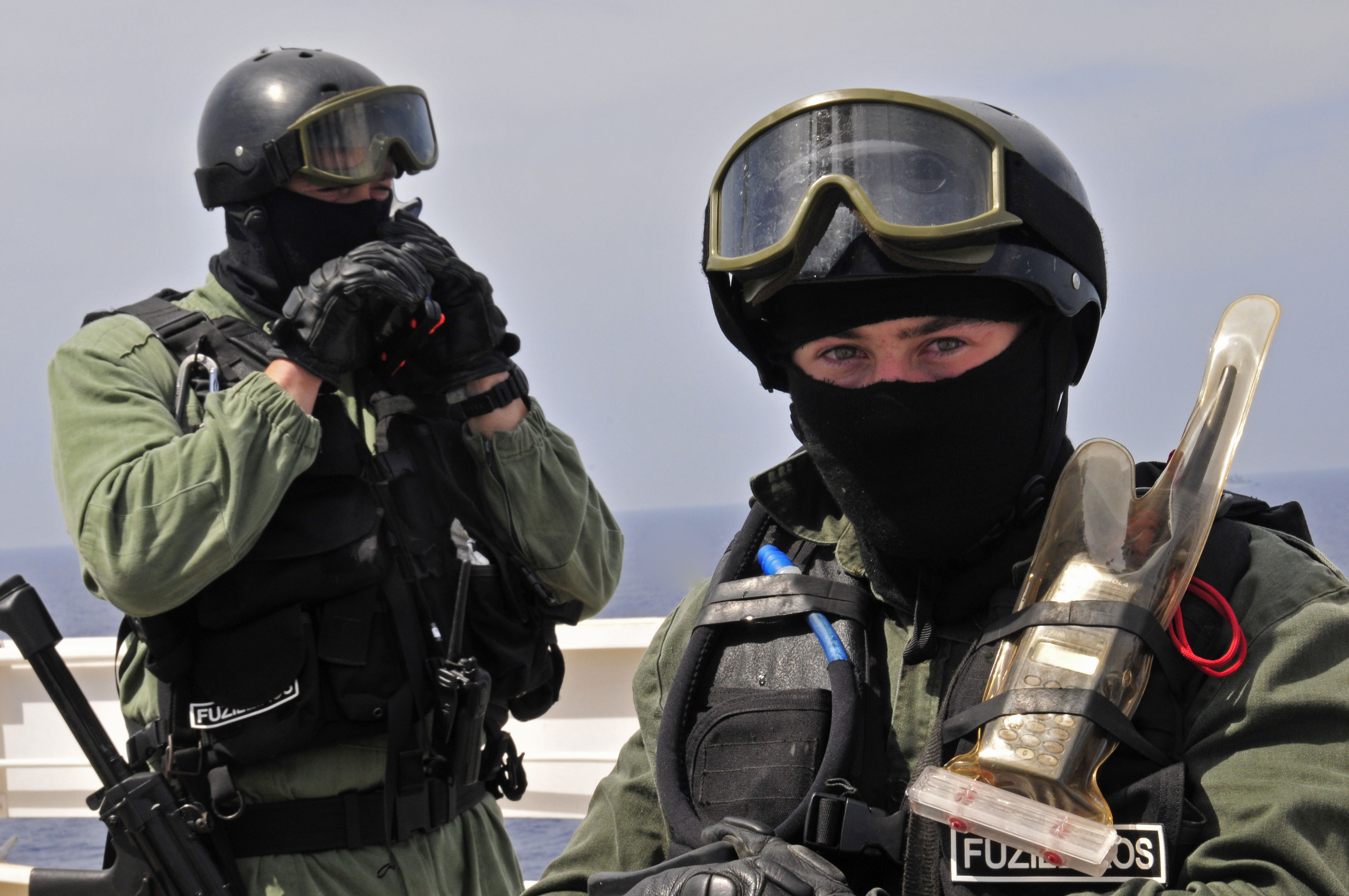 MEDITERRANEAN SEA (May 27, 2010) Portuguese navy visit, board, search and seizure team members await instruction after boarding the Military Sealift Command container and roll-on/roll-off ship USNS LCPL Roy M. Wheat (T-AK 3016) during exercise Phoenix Express 2010. Phoenix Express is a two-week exercise designed to strengthen maritime partnerships and enhance stability in the region through increased interoperability and cooperation among partners from Africa, Europe, and the U.S. (U.S. Navy photo by Mass Communication Specialist 2nd Class Felicito Rustique/Released)